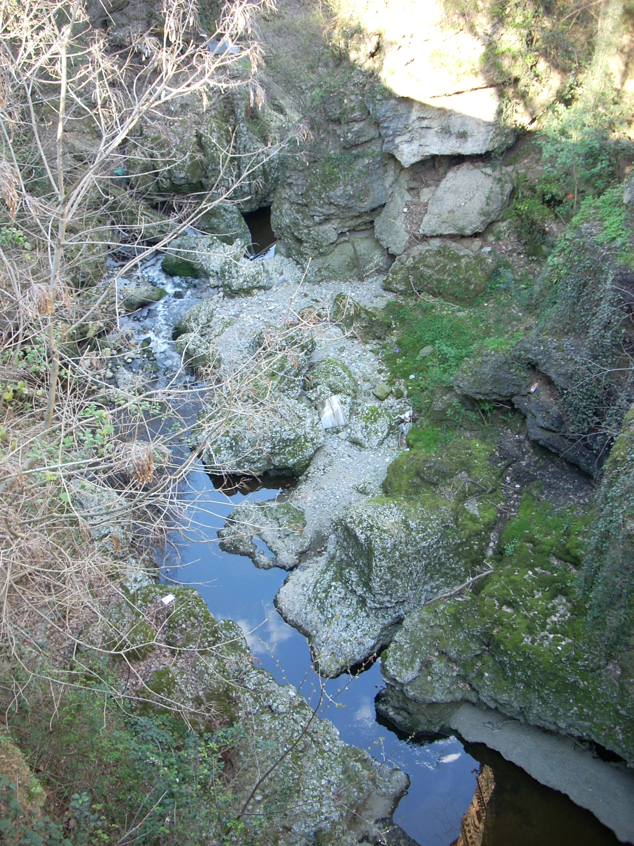 Torrente Dordo near Castle Marne, Filago, Italy